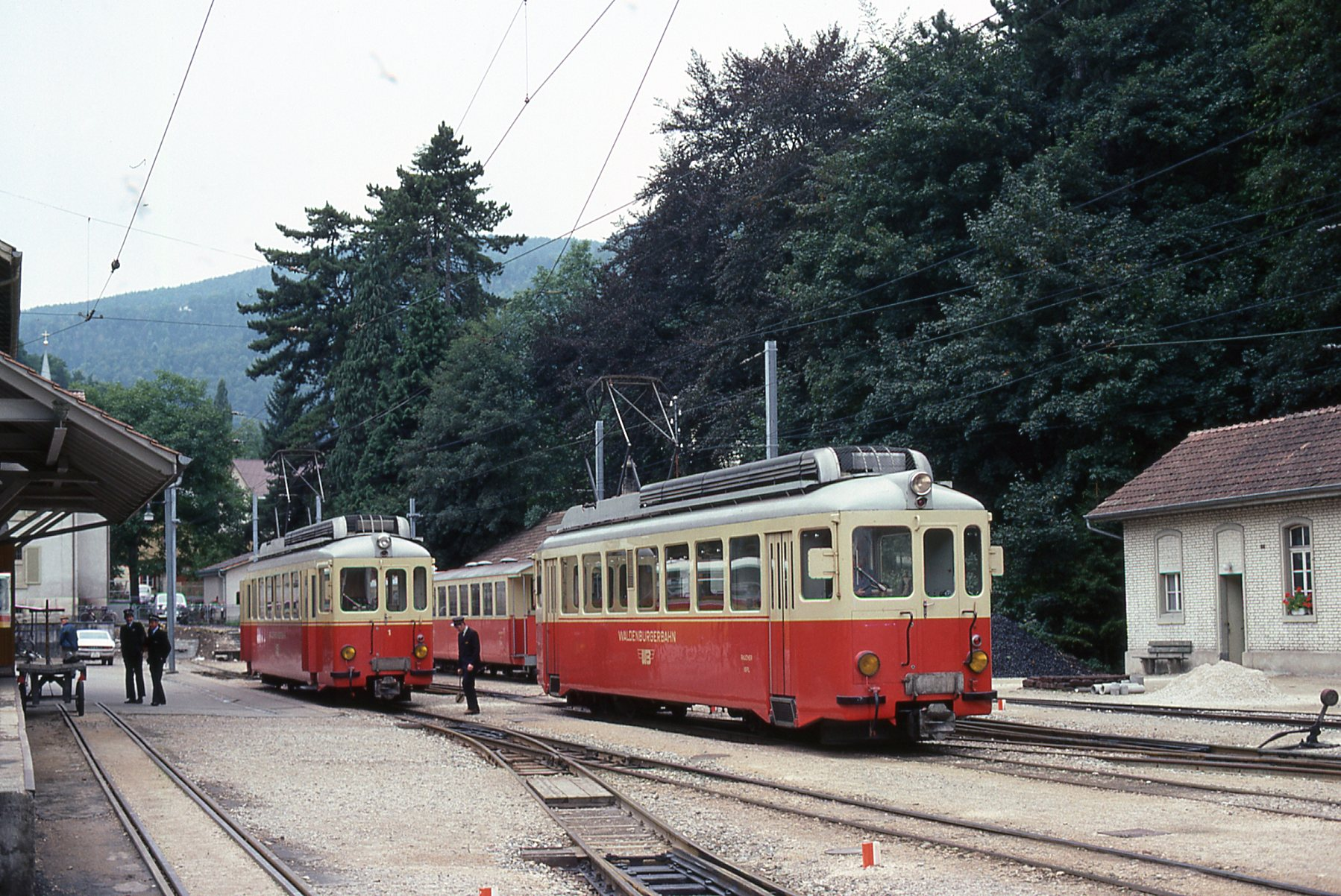 Tram of the Waldenburgerbahn, BL, Switzerland